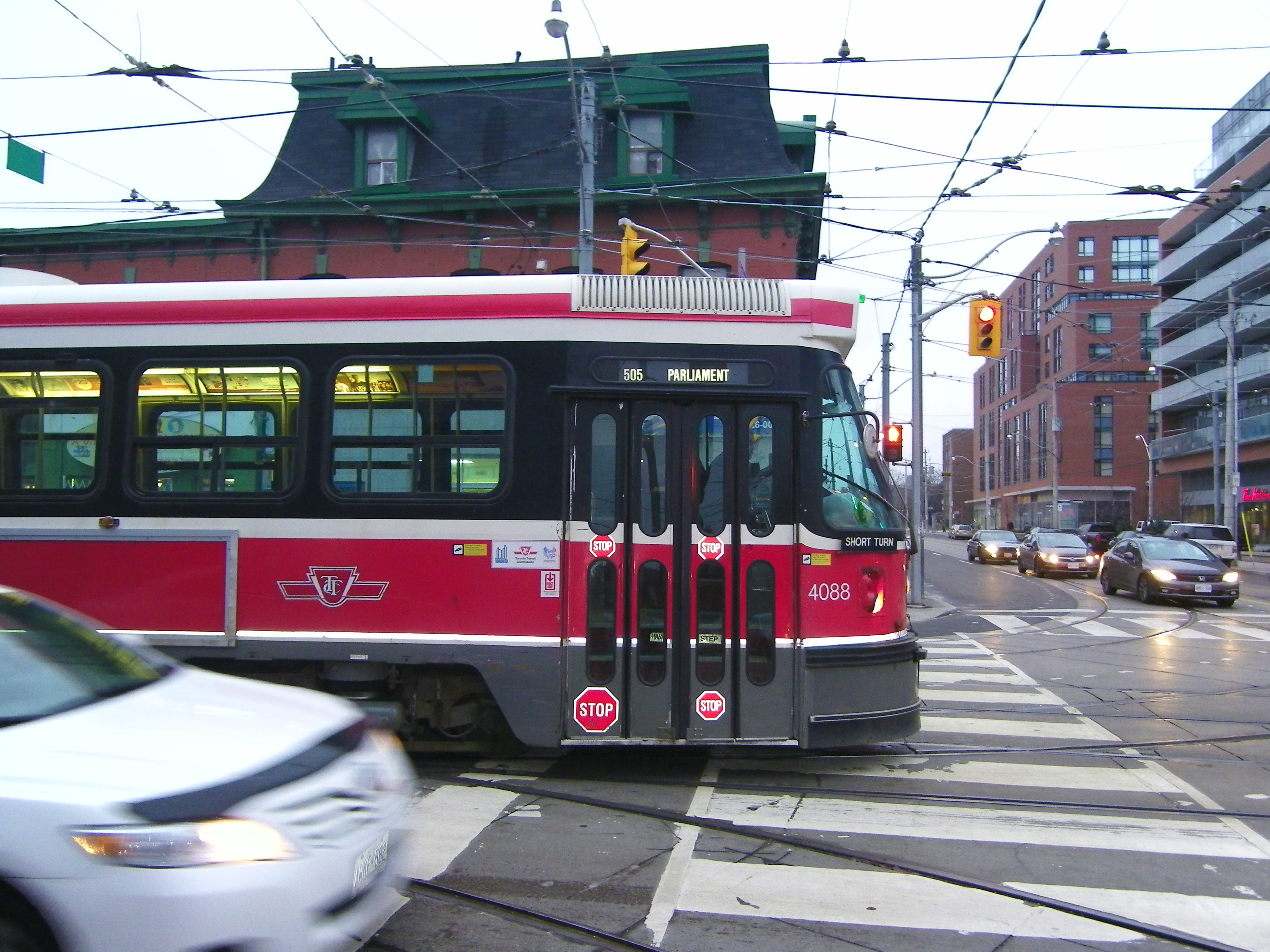 Dundas streetcar at Dundas and Parliament streets, Toronto.